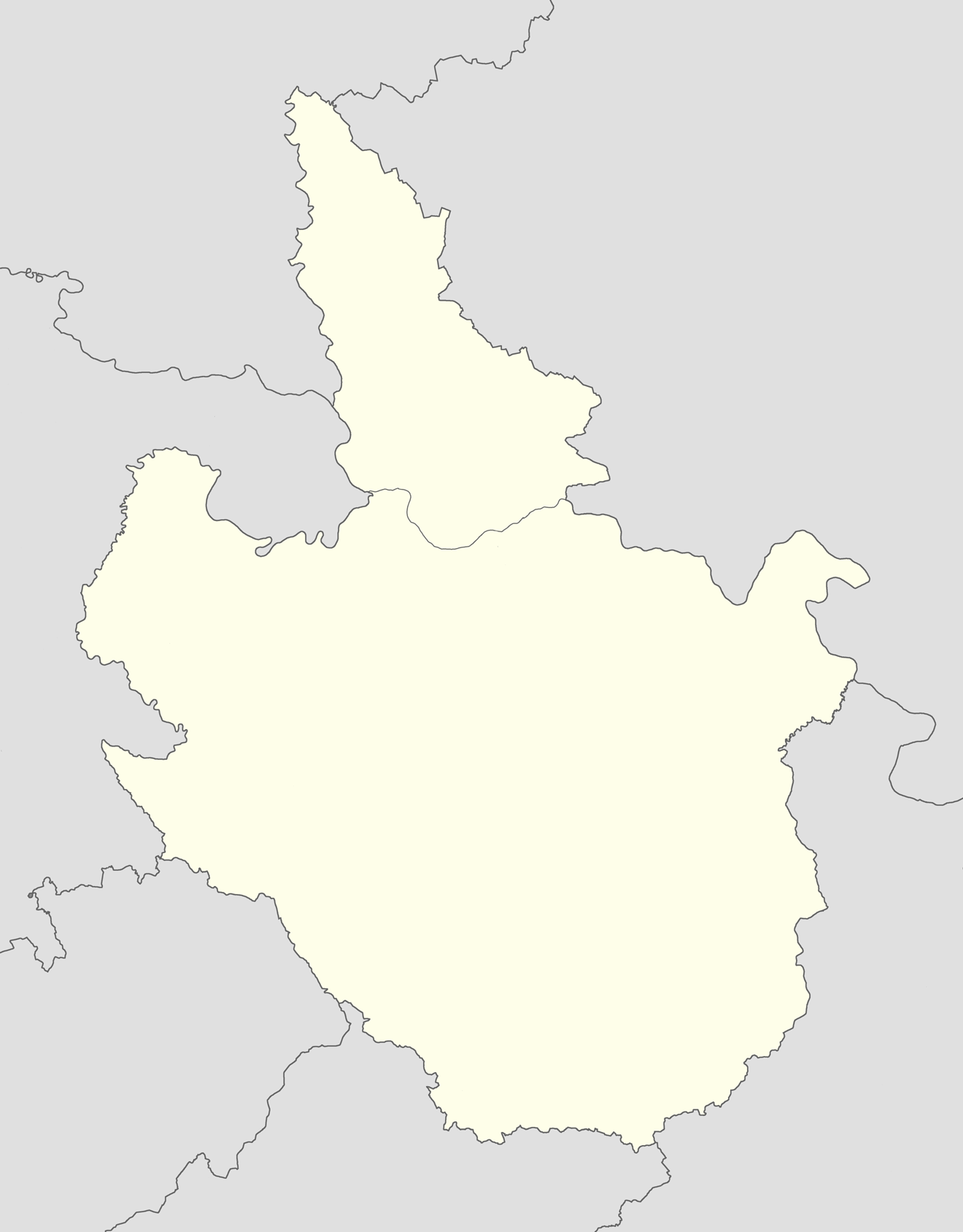 Blank locator map for the Territory of the Military Commander in Serbia 1941-44